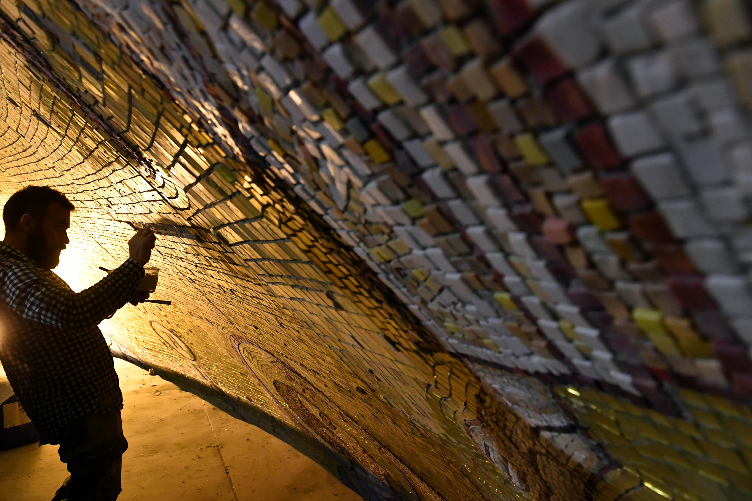 30.10.2017_NGS Dikovic ugradnja mozaika u kupolu Hrama Svetog Save D_Banda